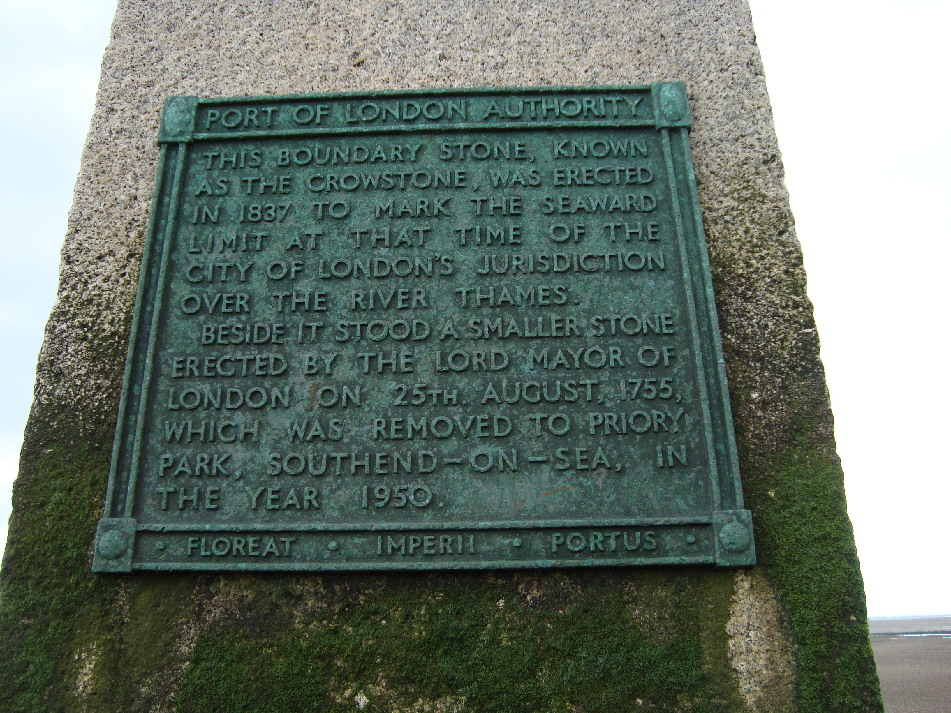 The plaque on the Crow Stone in Southend-on-Sea, Essex, England. The plaque is standing up nicely although the original inscriptions on the stone obelisk have seen rather too much time and too many tides. The Latin at the bottom is "floreat imperii portus" - "let the imperial port flourish" - the splendidly jingoistic motto of the Port of London Authority.